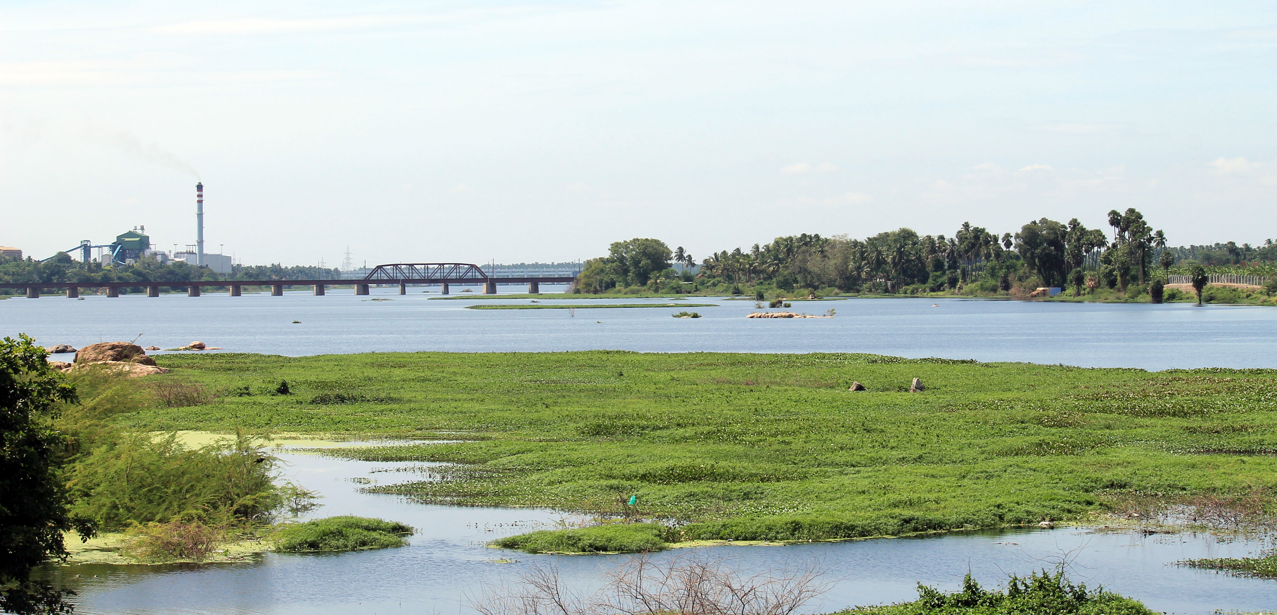 The Kaveri River Near Erode